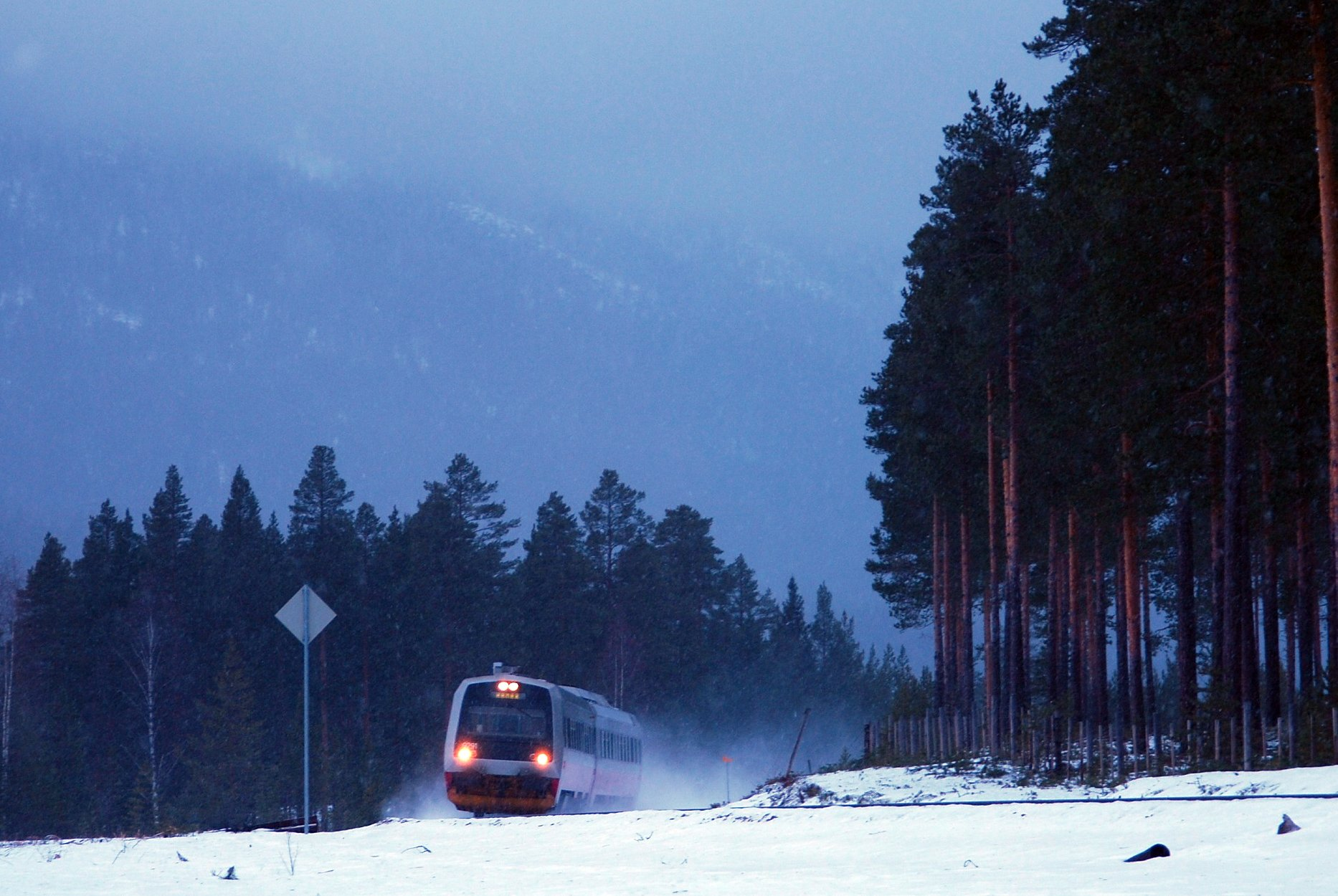 On the Røros Line, the branch line running between Hamar and Støren. It runs through the beautiful and wild Østerdalen Valley, more sparsely populated than Gudbrandsdalen, its western neighbouring valley. Trains on this line kill a vast amount of moose (also other kinds of wild animals) every winter. The tracks are cleared of snow, making them easier to walk on or beside. Train drivers carry a gun with them and shoot animals that have been run over. During the 2006-2007 season, a total of 930 moose/deer etc were run over in the counties of Hedmark, Sør-Trøndelag, Nord-Trøndelag and Nordland, where many trains of the Norwegian State Railways are diesel-hauled. [no] Sørgående regiontog mot Hamar. Atna 2009.